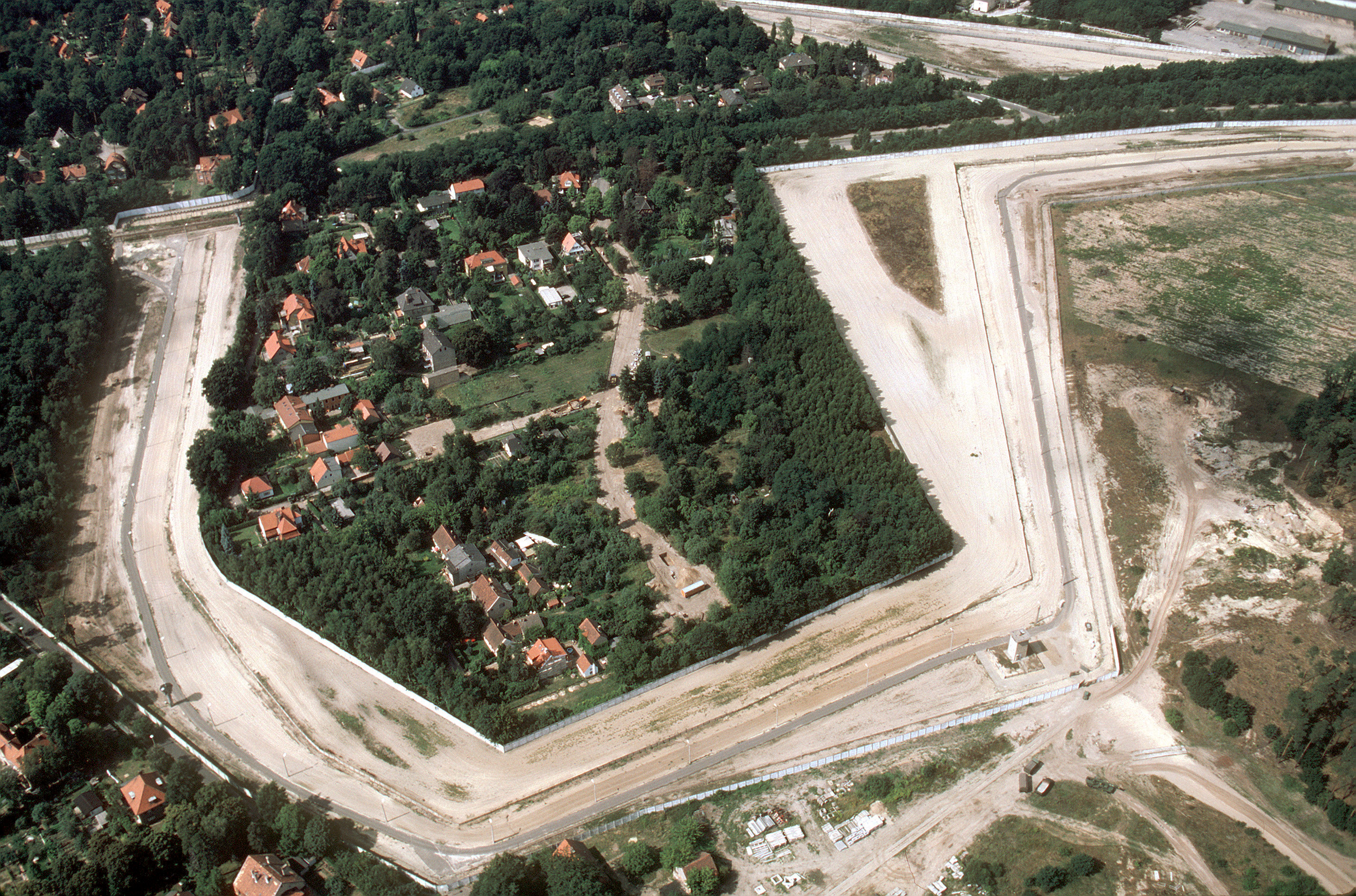 An aerial view of a segment of the Berlin Wall.